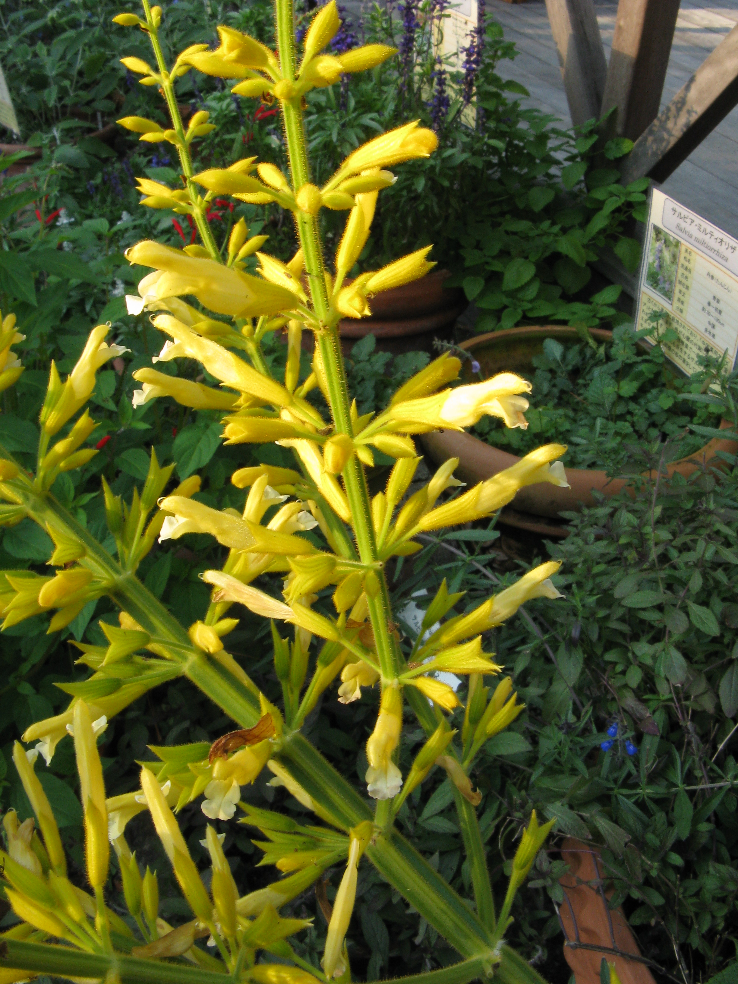 Scientific name Salvia madrensis 'Yellow Majesty' Place:Osaka Prefectural Flower Garden,Osaka,Japan